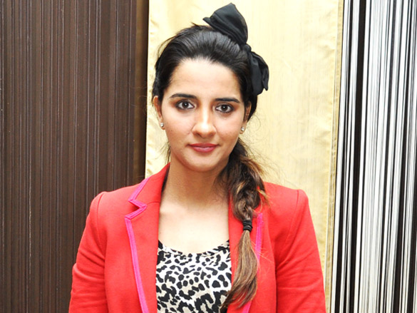 An event at Koh hosted by Shruti Seth